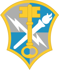 Patch of the United States Army Intelligence and Security Command (INSCOM)